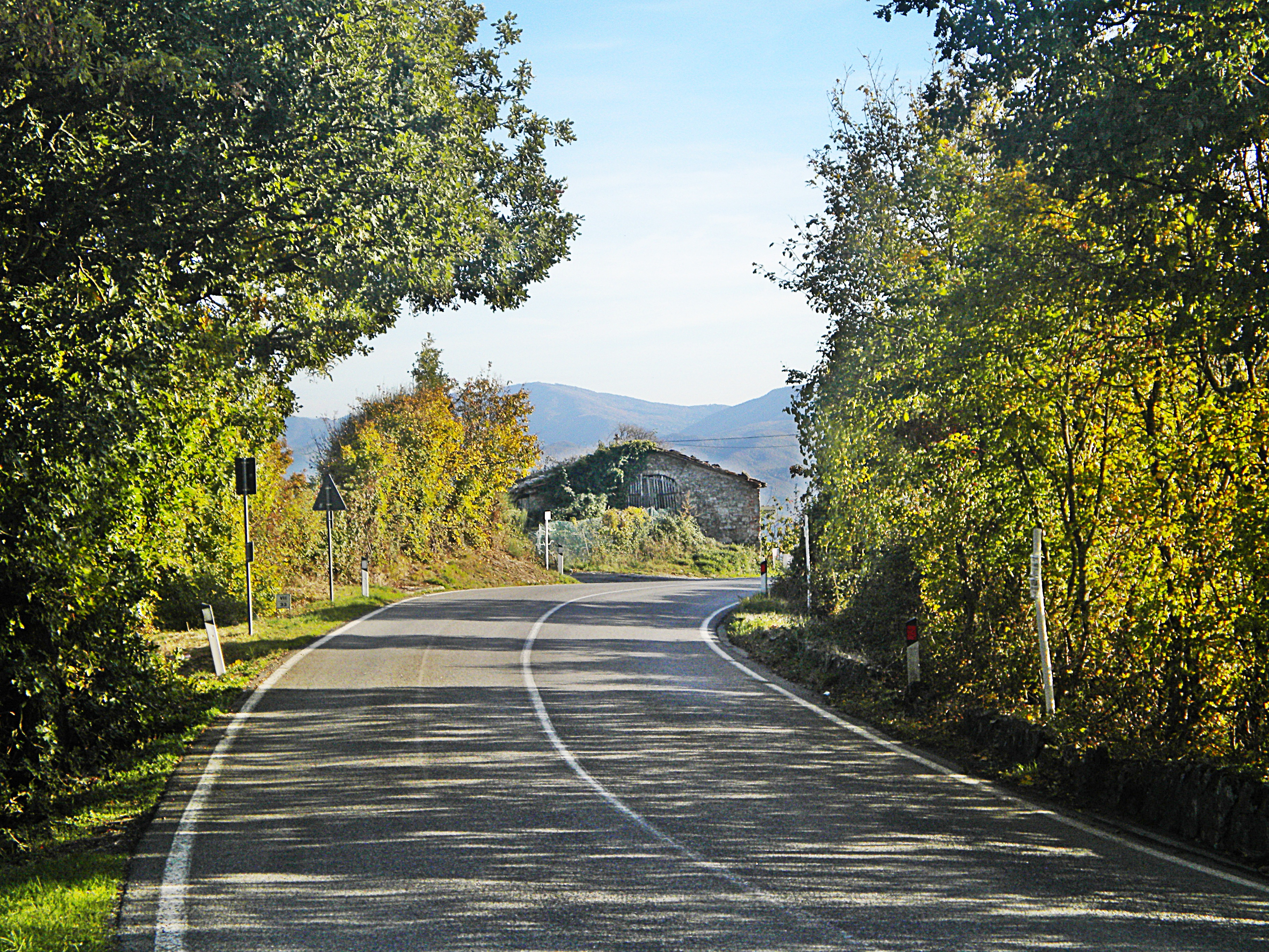 SS 65 Futa pass in Le Croci